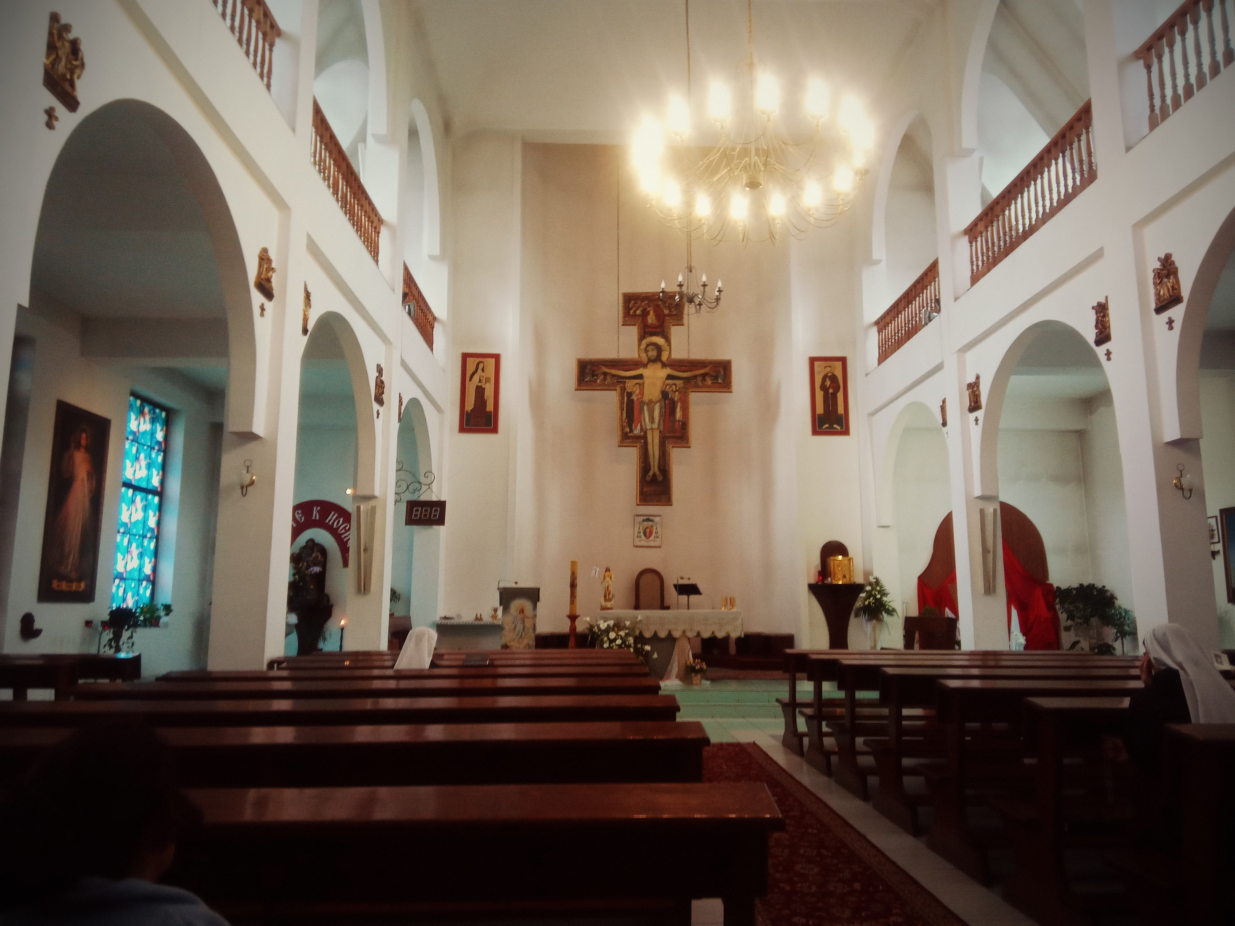 Ałmaty – Parafia Trójcy Świętej